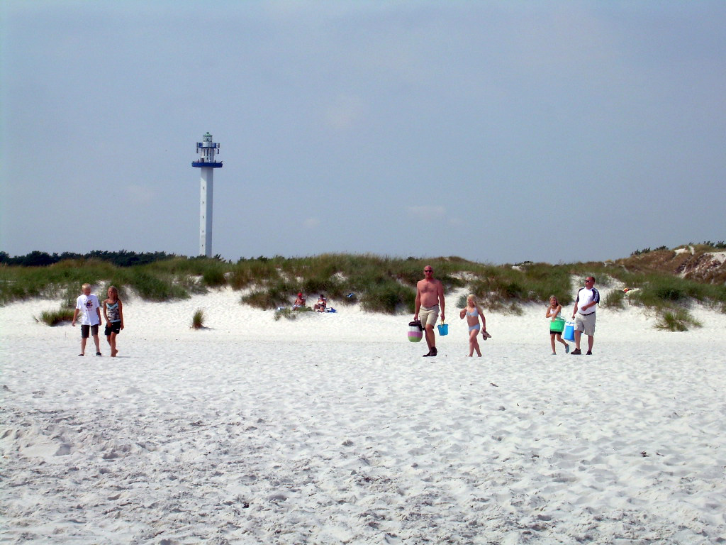 Dueodde Beach and lighthouse, Bornholm, Denmark